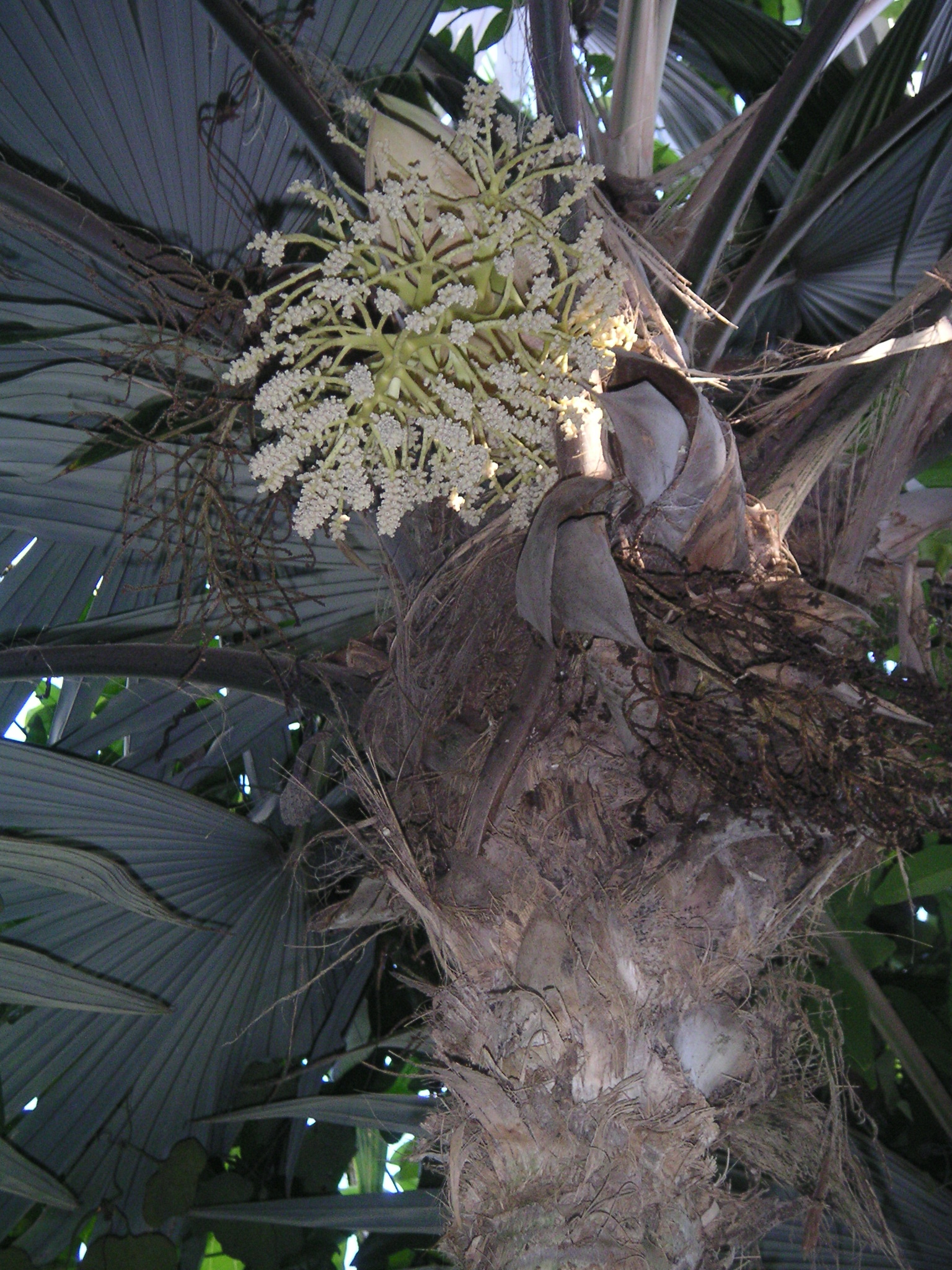 Cryosophila warscewiczii, Inflorescence, at Kew Gardens, London, UK